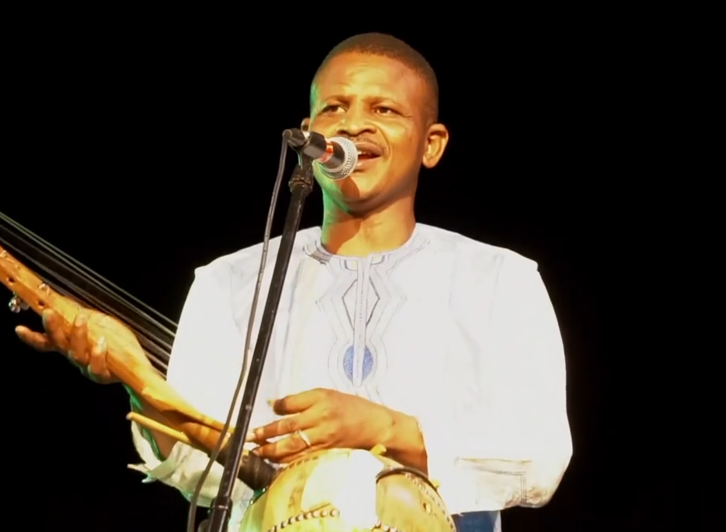 Screenshot of Burkinabé musician Dicko Fils, from a performance at the first Festival Voix du Faso ("Voice of Faso Festival") in Montréal, Canada in 2017